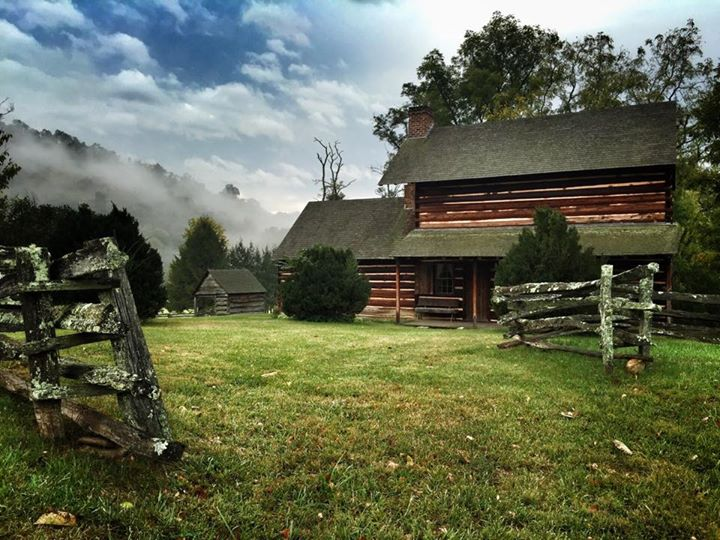 View of the reconstructed David and Priscilla Vance home